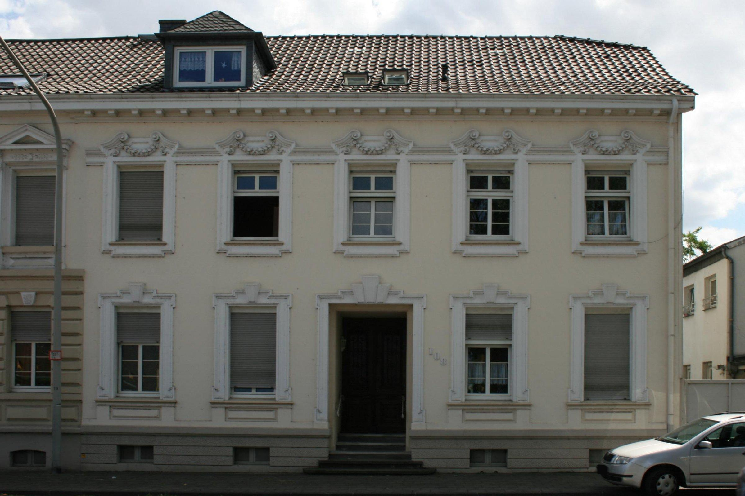 Cultural heritage monument No. D 023 in Mönchengladbach